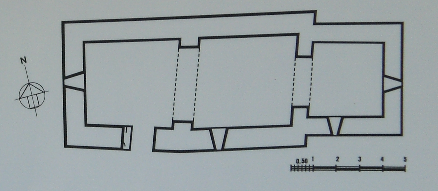 Plant of Saint Martí de Baussitges, sited in Espolla, Catalonia.